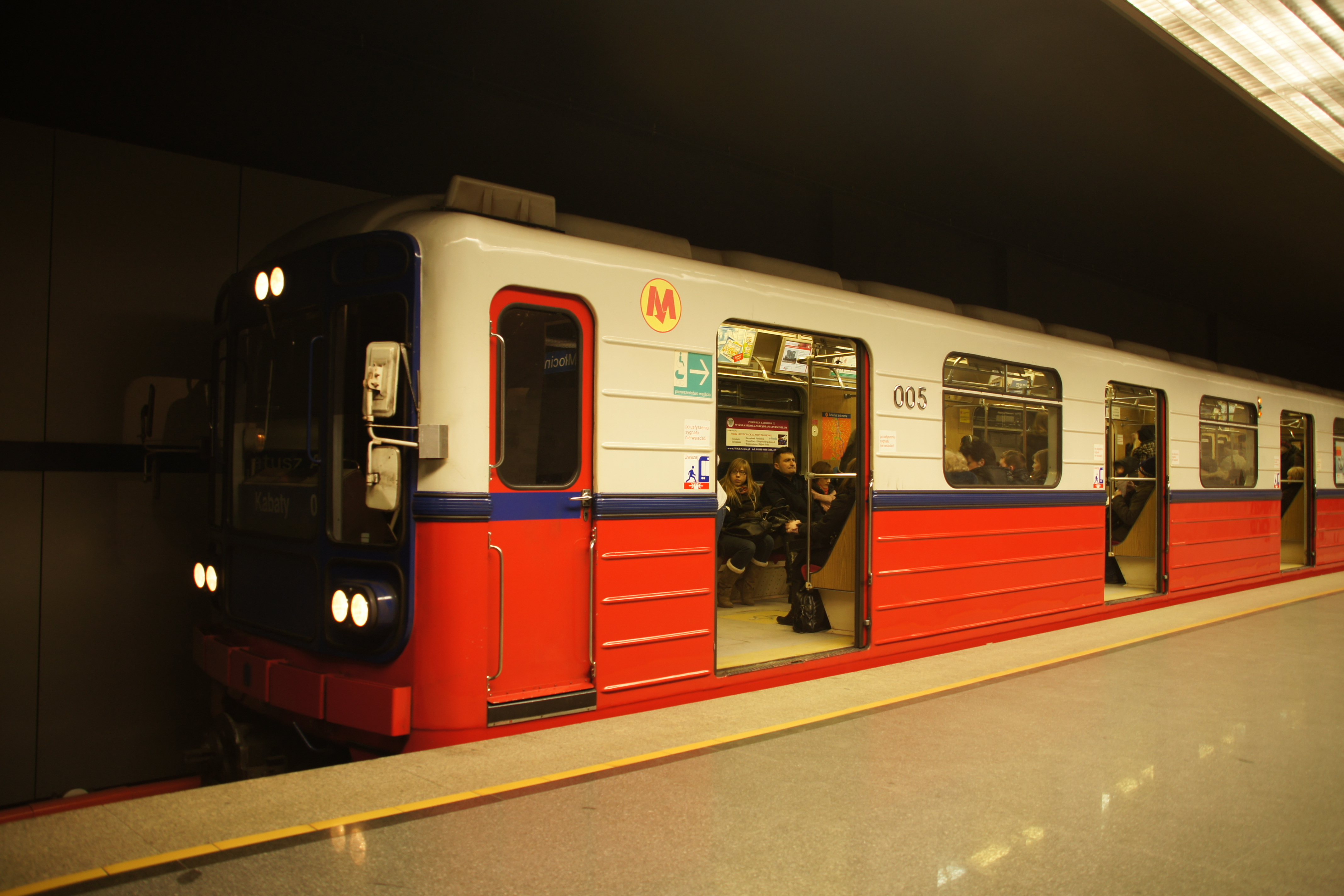 Warsaw Subway Train Type: Series 81-572/573 № 005 at station A-15 Ratusz Arsenał